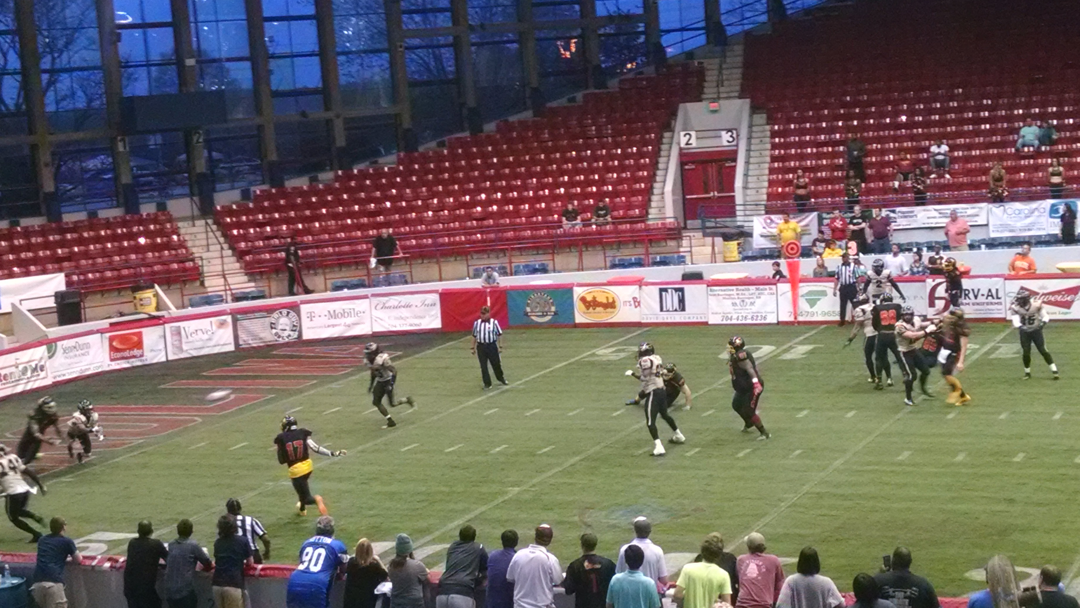 Triangle Thunder vs. Lehigh Valley Steelhawks at Dorton Arena, Raleigh NC 03-25-2016